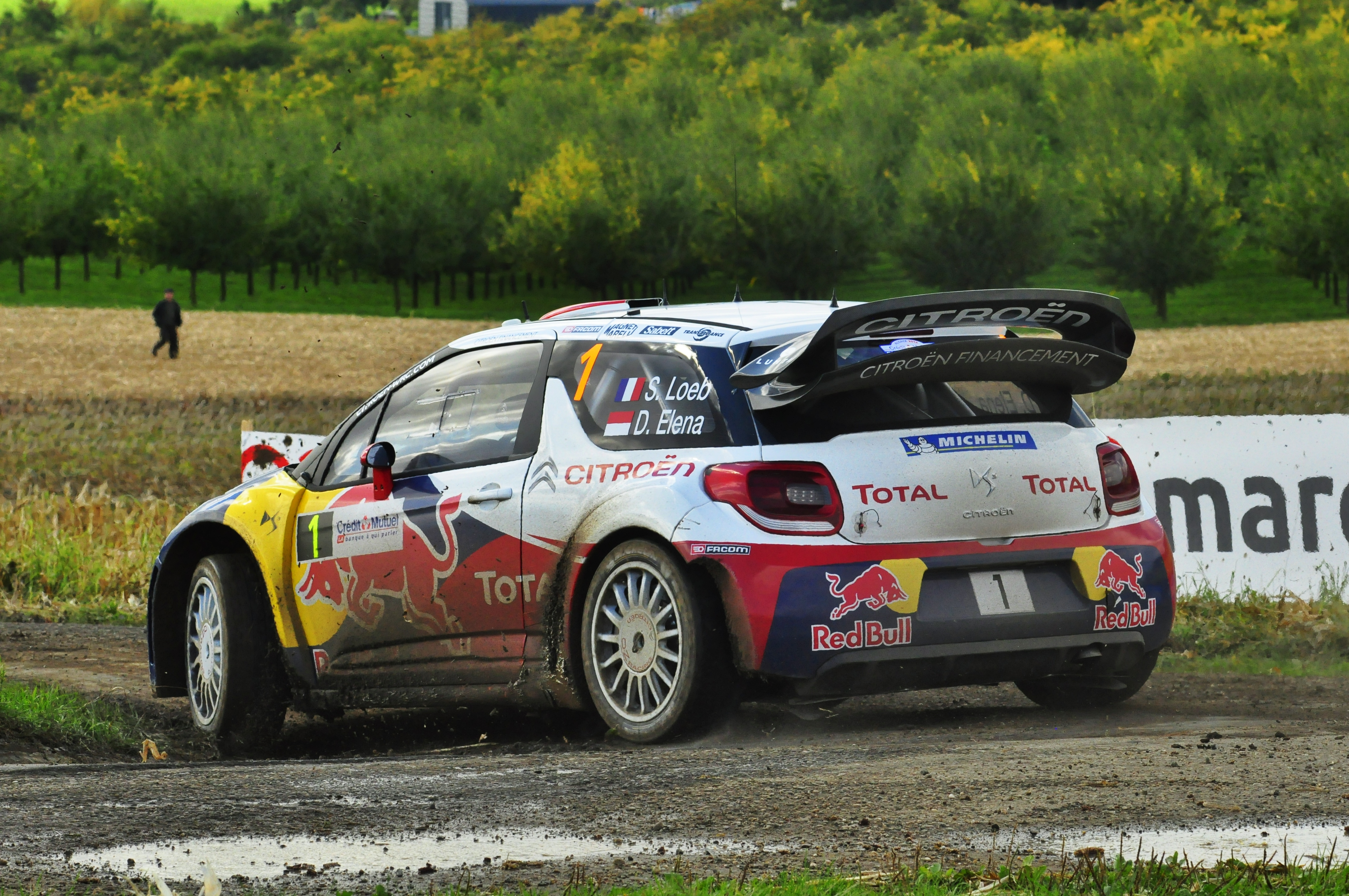 Citroën DS3 WRC #1; Sebastien Loeb & Daniel Elena